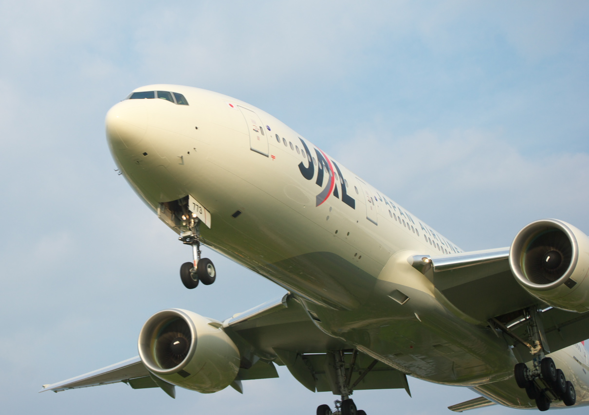 JAL B777-246(JA773J) approach to runway 32L of Osaka international airport(ITM/RJOO). It taken on the runway 32L end, Senrigawa river bank. 千里川土手の32L滑走路端から着陸態勢のJALのB777-246を撮影した。JA773Jは撮影時点でJALで一番新しい機体。2007年5月18日に受領している。2007年には他にはB737-846を3機(JA302J～JA304J)受領している。 大阪国際（伊丹）空港遠征写真第5弾。とりあえずはこれでお終い。